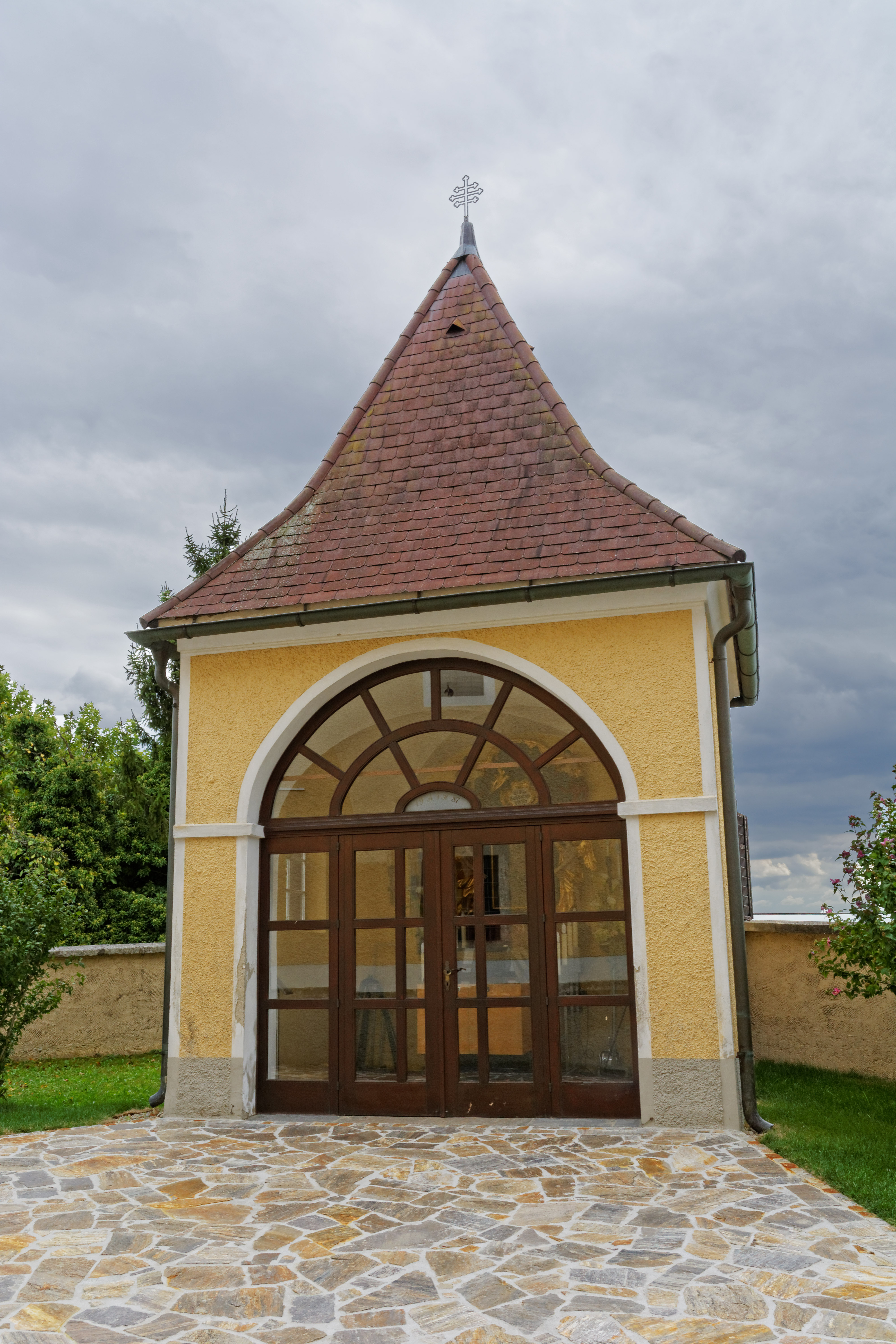 Chapel in Jagerberg, Styria, Austria